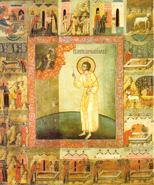 Icon of St. Artemy of Verkola (1532-1545), a peasant boy killed during a thunderstorm and revered for posthumous miracles associated with his relics.